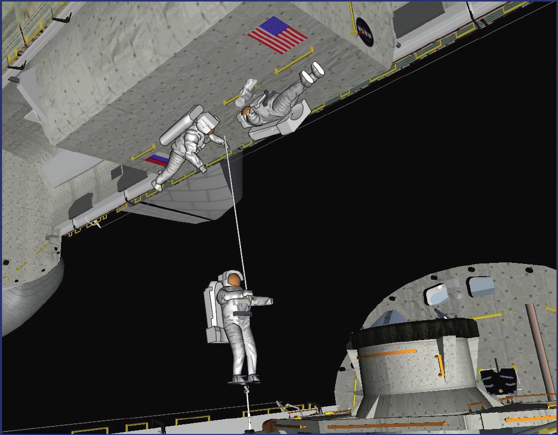 The Columbia Accident Investigation Board asked NASA to design a hypothetical rescue scenario.